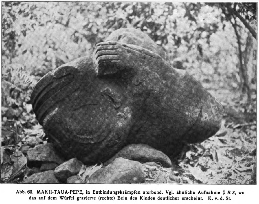 Unique Maki i Taua Pepe, in 1897. v.d. Steinen saw this as a woman dieing whilst giving birth to her child. When Thor Heyerdahl visitet the site in 1937, he saw same, but declared that the monument obviously had been damaged and capsized during the island's Christianisation period: It could as well represent a person or goddess swimming, and the "child" might stand for the the Marquesan people she carried with her. In 1937, the left arm was broken away and still missing. When Heyerdahl returned in 1956, this part meanwhile had been found nearby, and attached, and the monument had been positioned its original way. See rear view, 1897, and File:HivaOa Takii.jpg (2009).